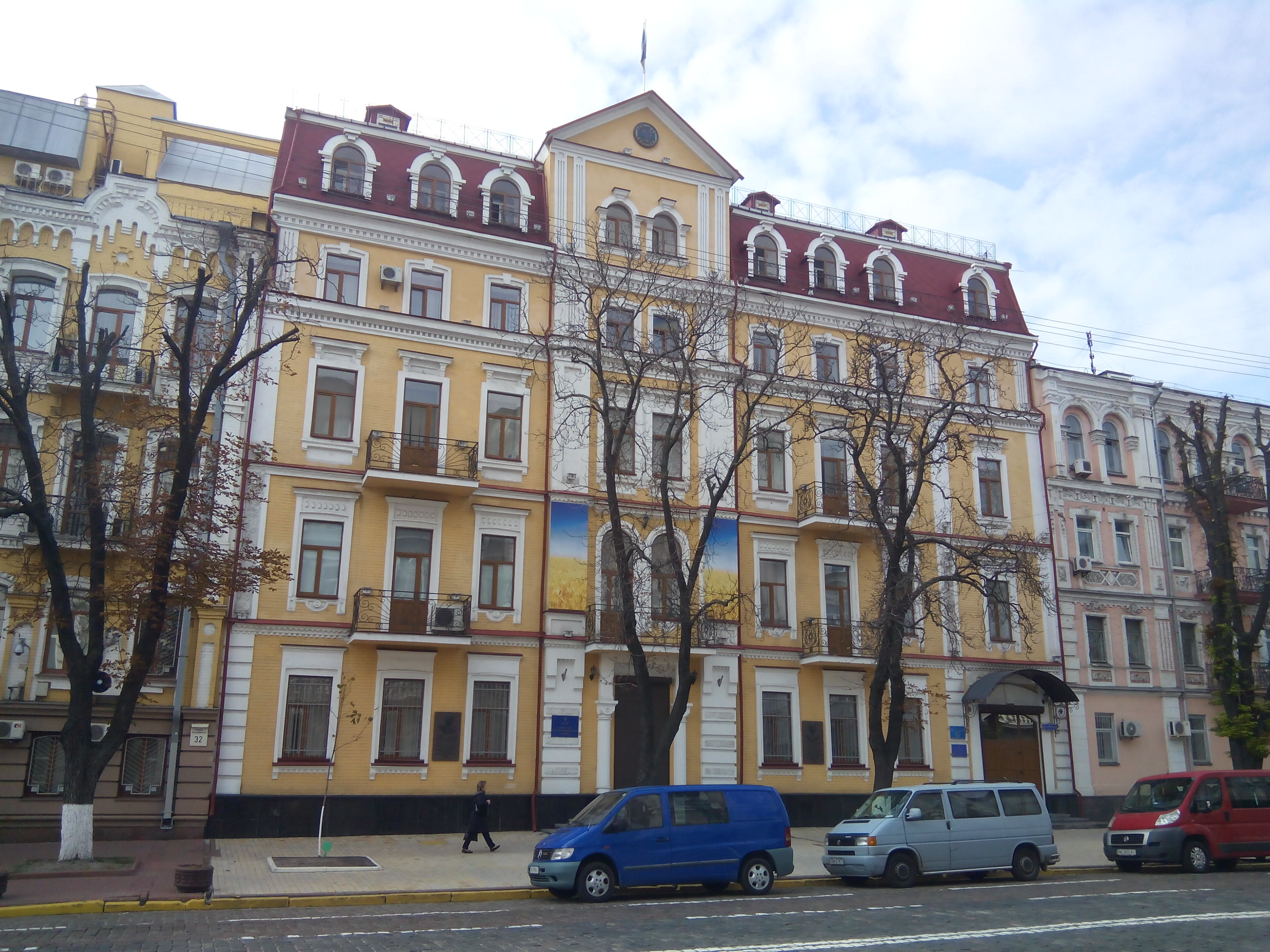 State Border Guard Service of Ukraine headquaters